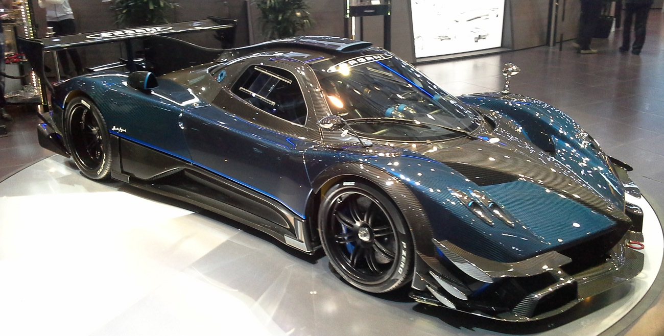 Pagani Zonda Revolucion photographed at the 2014 Geneva Motor Show, Geneva, Switzerland.